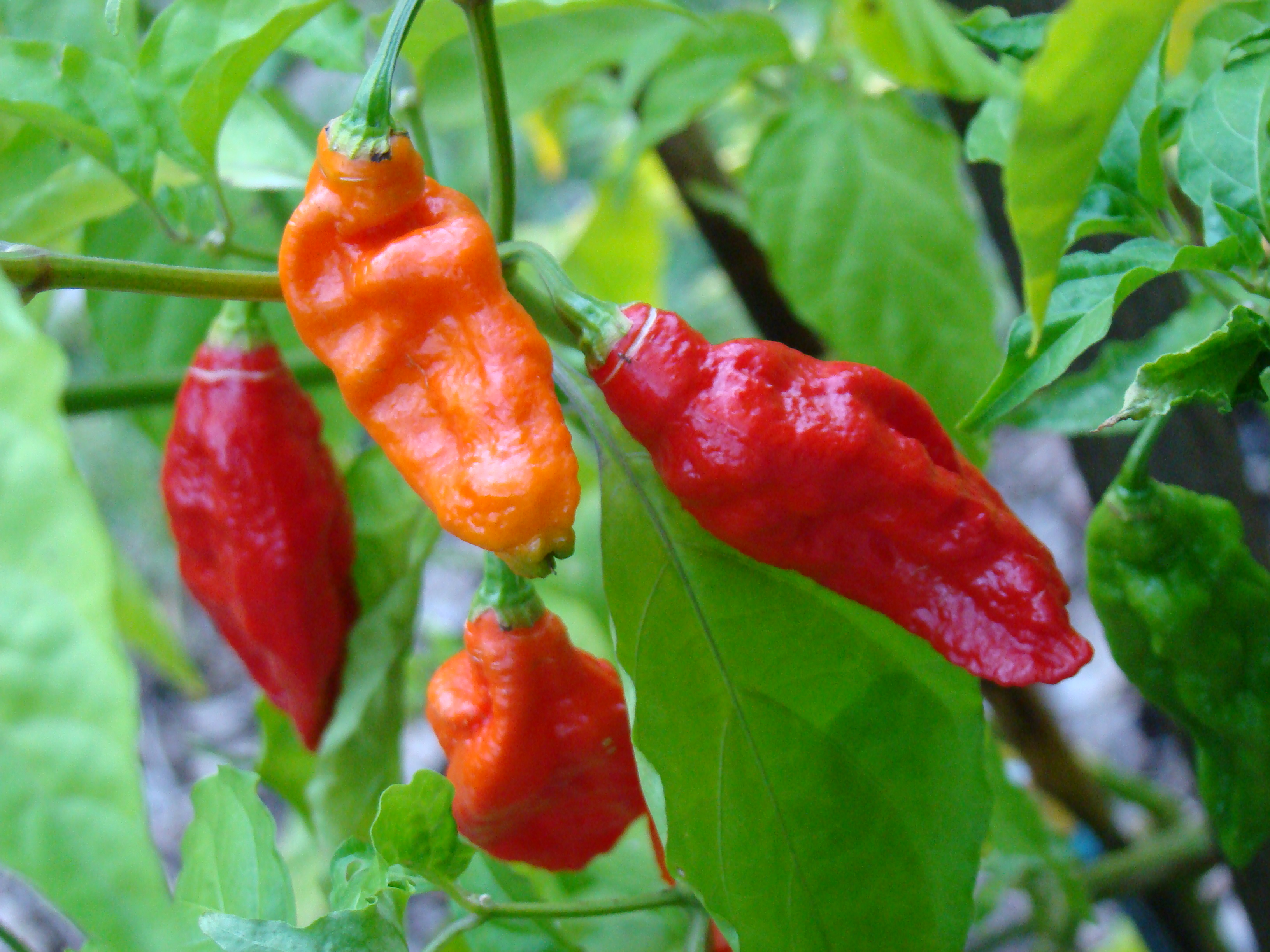 Peppers were grown in 3-gallon pots in the Ghosh Grove, Rockledge, Florida, USA from seeds bought from the Chili Pepper Institute, New Mexico State University, Las Cruces, New Mexico, USA.